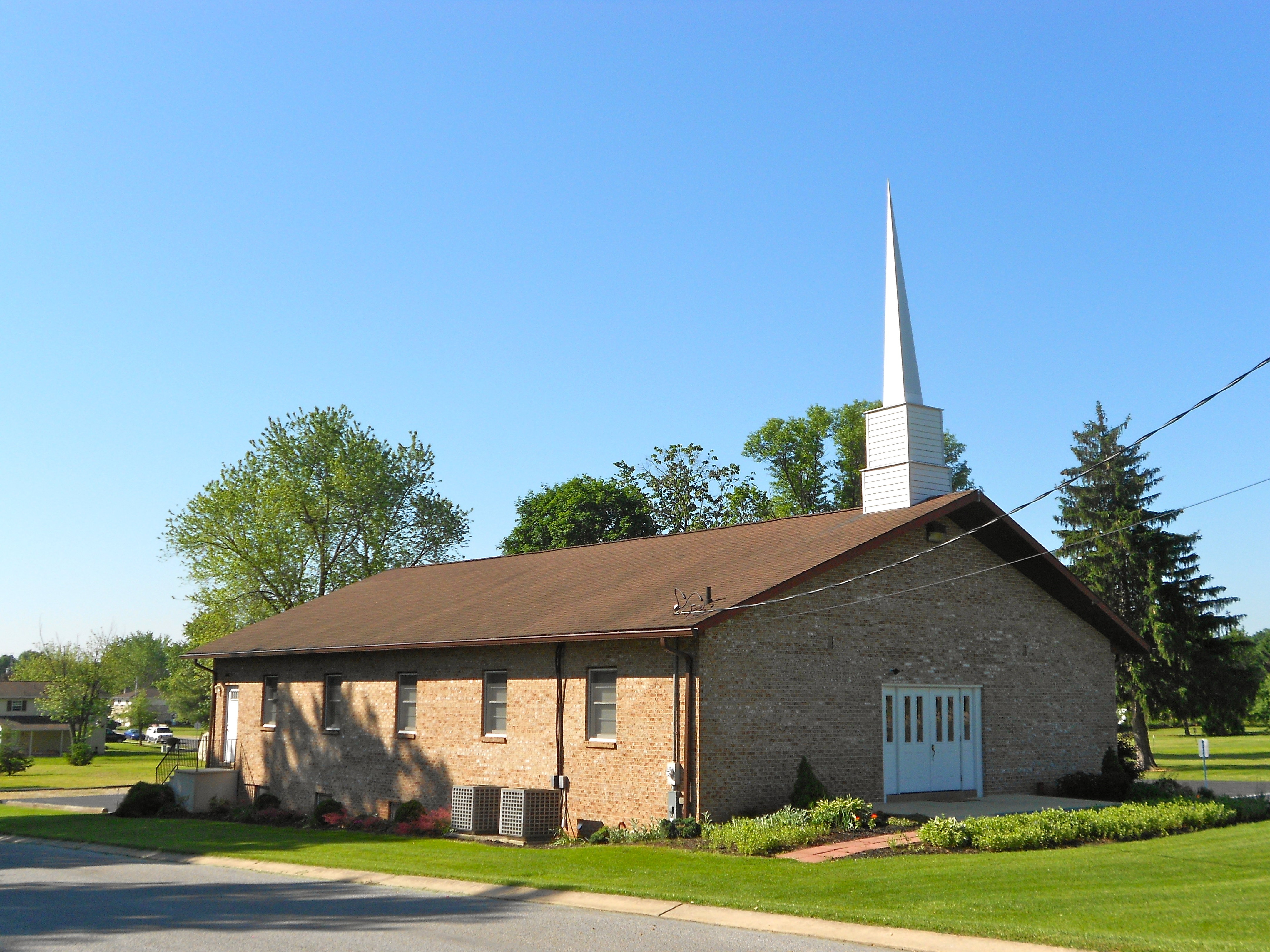 God's Missionary Church, 2300 Sunset Lane in the Village of Shiloh, Pennsylvania. The church's orientation is Methodist, but the denomination is "God's Missionary Church", which has churches in 7 states, but is predominantly in Pennsylvania.